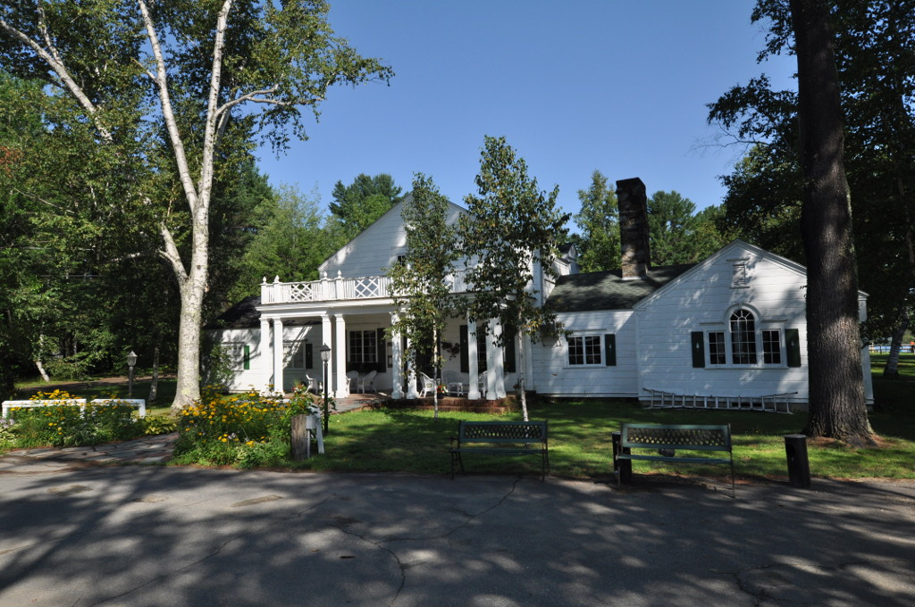 Building housing the restaurant of the Lakewood Theater complex, Madison, Maine.